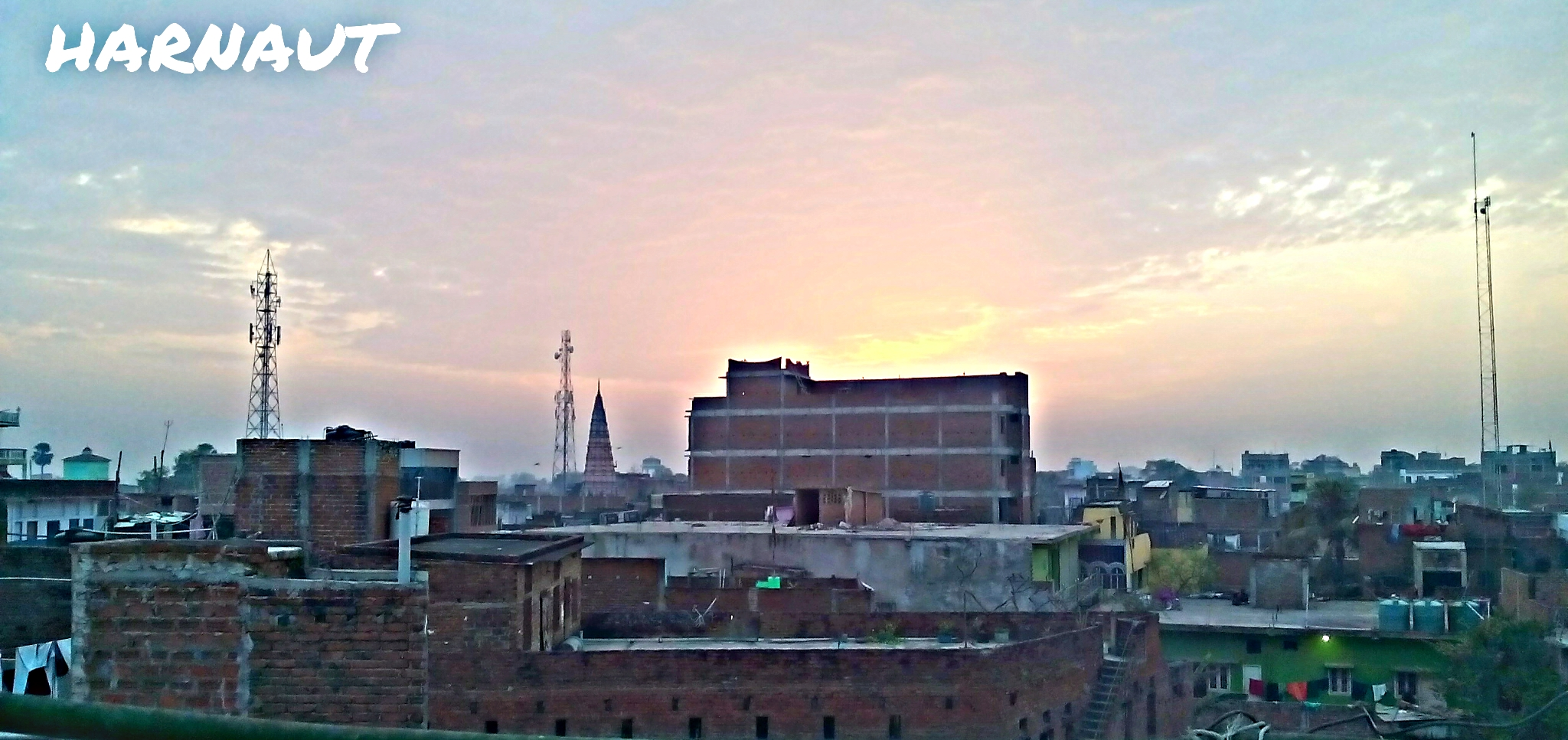 view of Harnaut city west view of Harnaut, Harnaut, Bihar, India